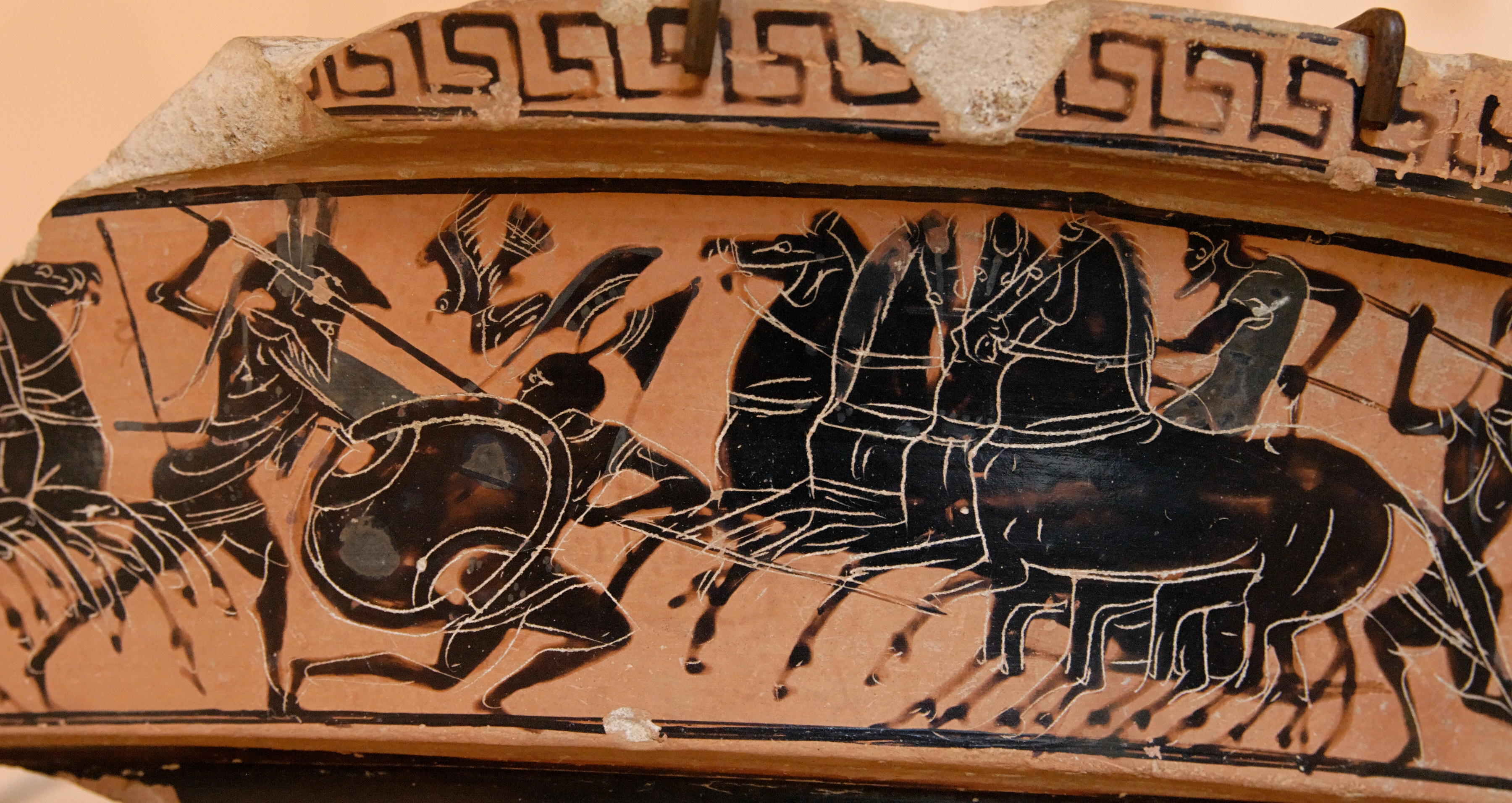 Hoplite fight. Fragment of an Attic black-figure volute-krater, 520–510 BC. From Selinunte.